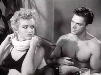 Cropped screenshot of Marilyn Monroe and Keith Andes from the trailer for the film Clash by Night